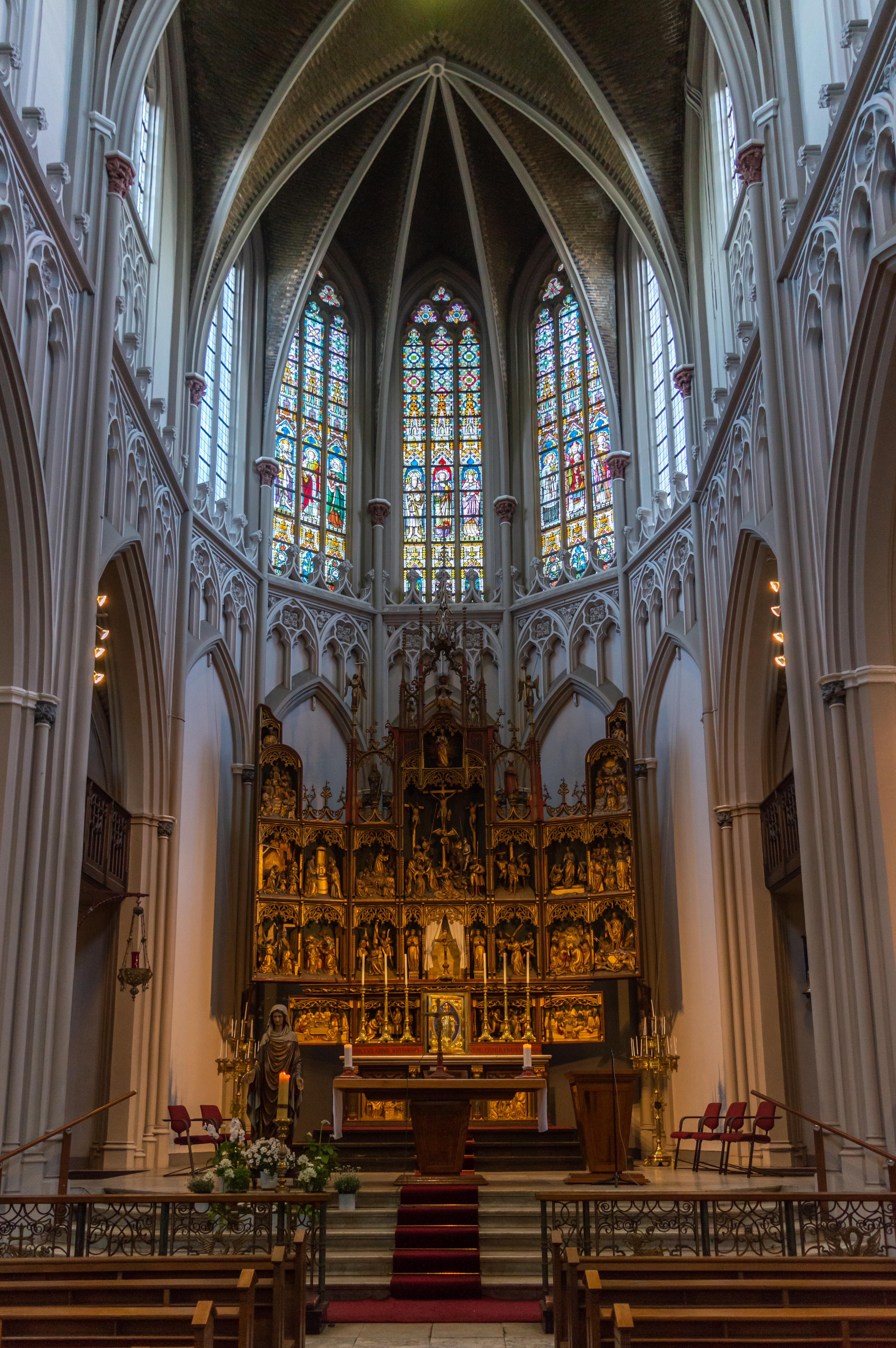 The main altar of the Heuvelse kerk in Tilburg.